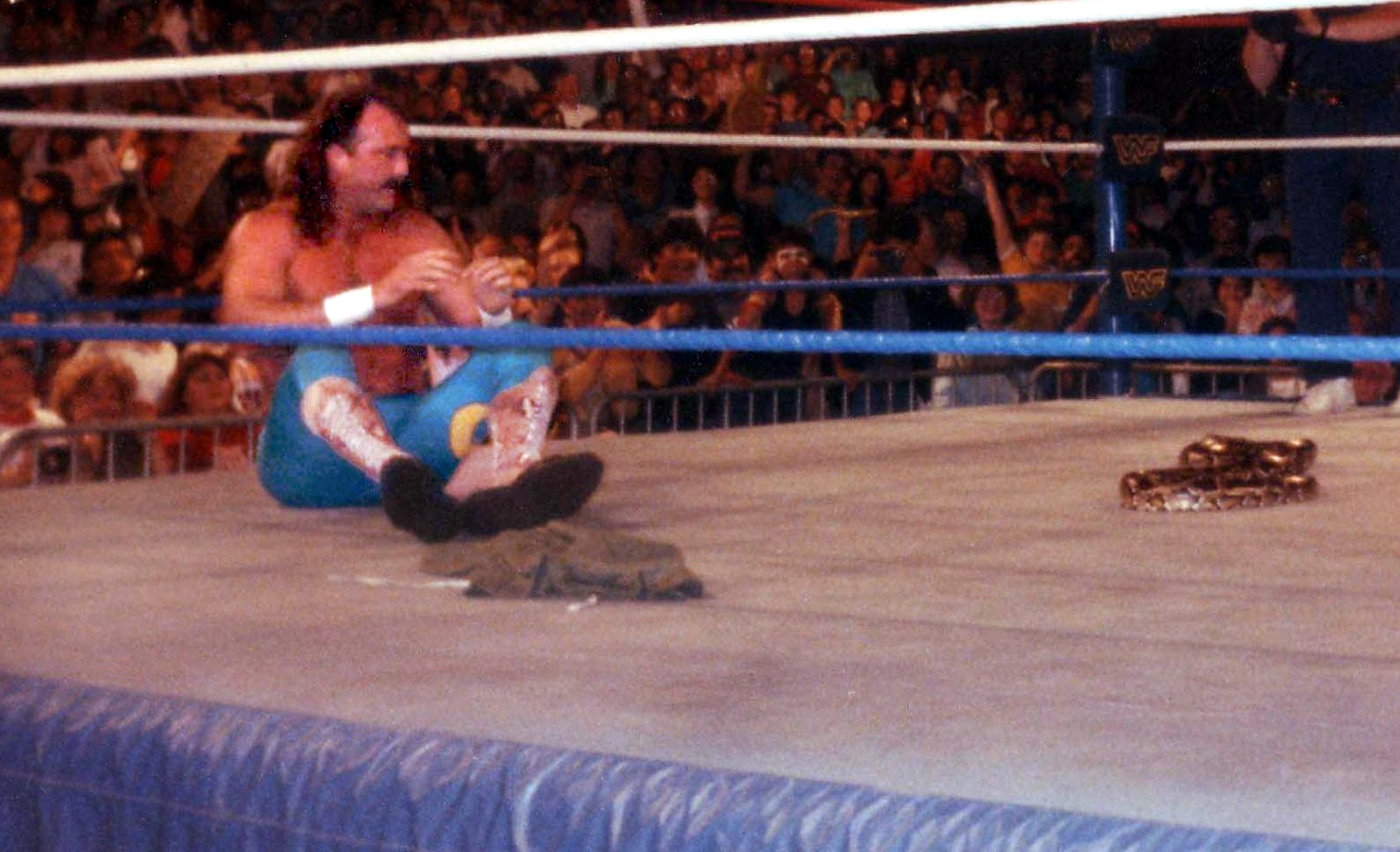 Professional wrestler Jake "The Snake" Roberts sitting in the ring alongside his pet snake, Damian.